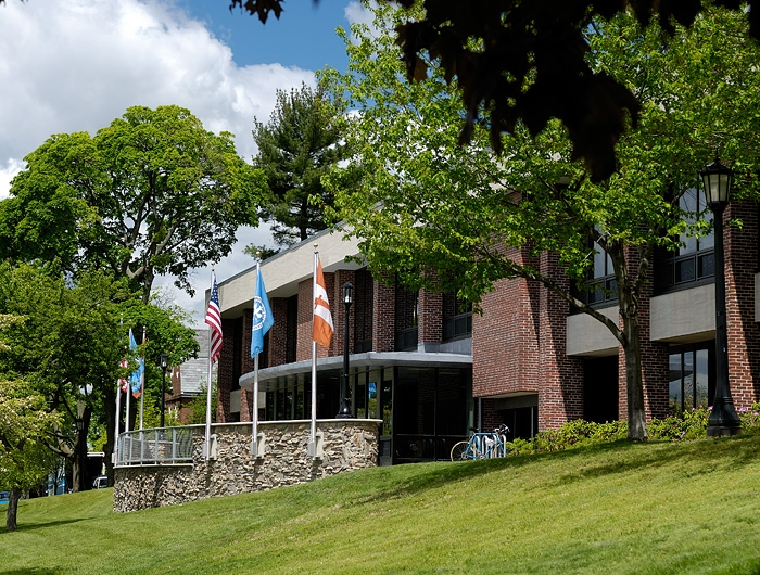 Fletcher School flags